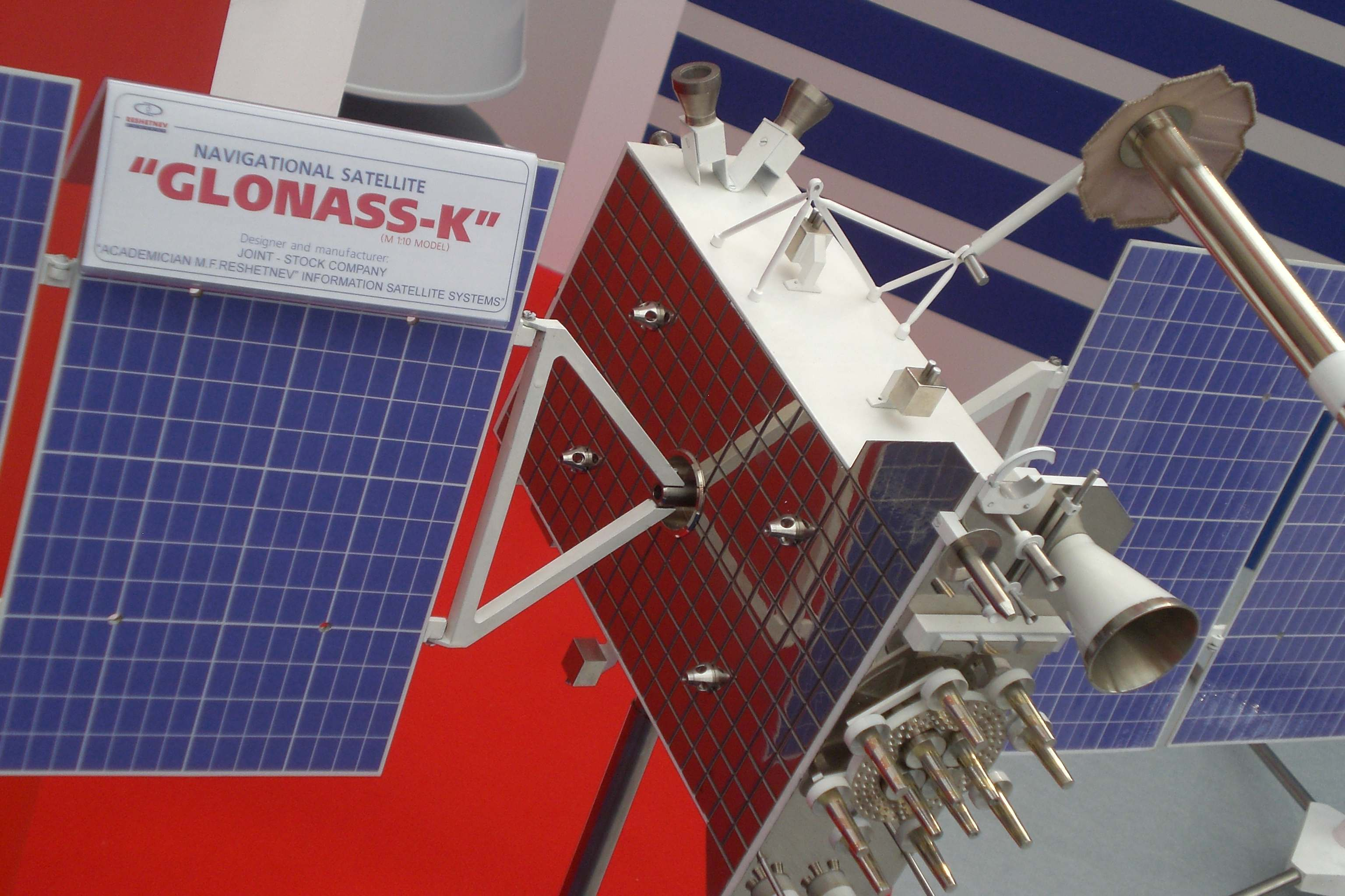 Glonass-K